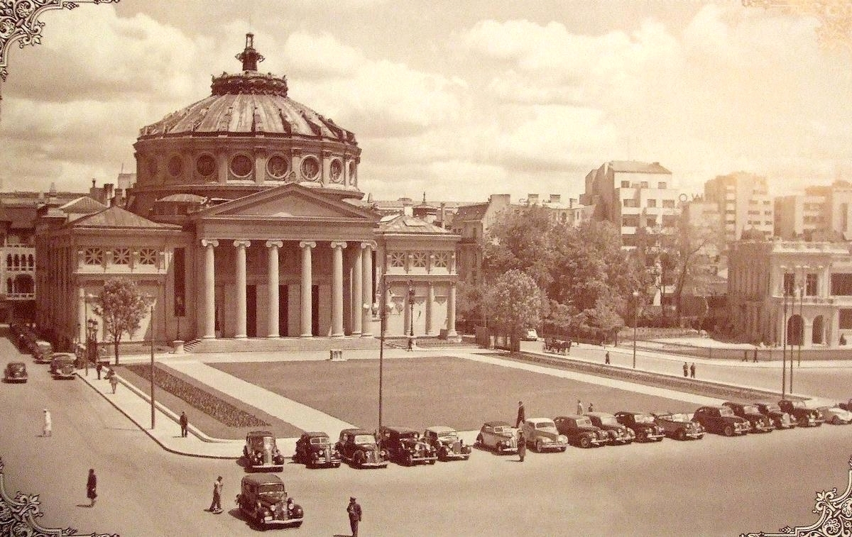 Romanian Athenaeum in Bucharest 1940